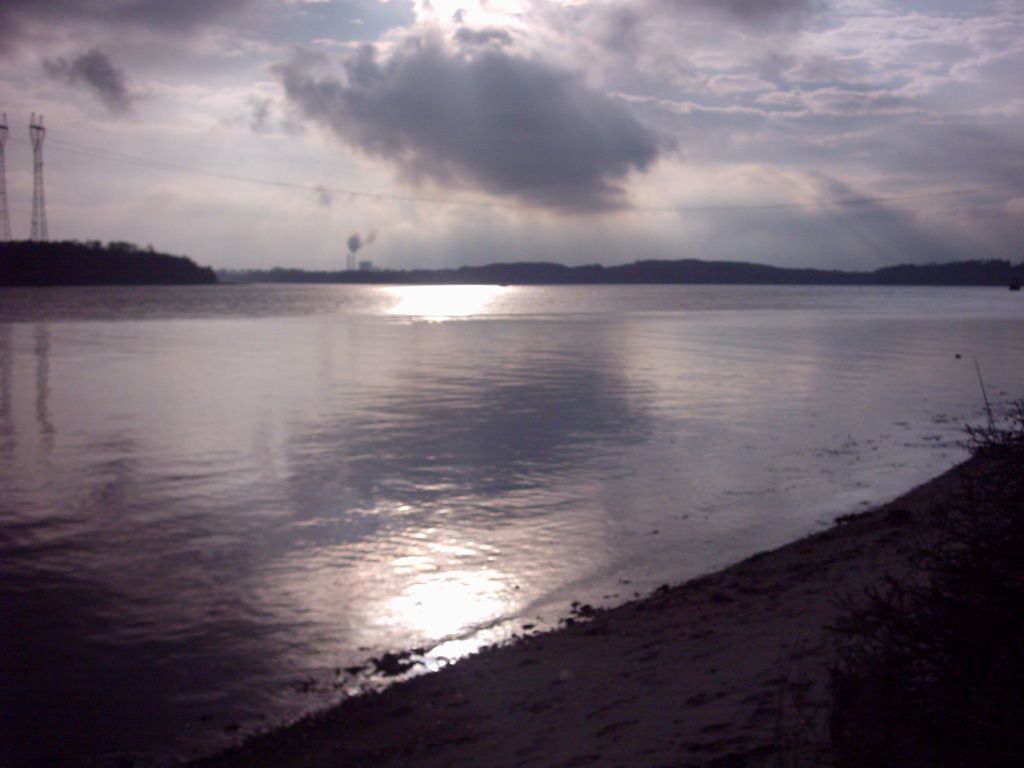 A picture of the lillebælt in Denmark (Little Belt). Left: Pylons of the two 400 kV overhead power line crossings.